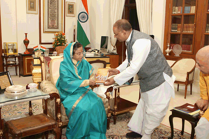 The President of India Pratibha Patil receives a copy of Bhagavad Gita As It Is from ISKCON Communications Director for India, Vrajendranandana Das at Rashtrapati Bhavan, New Delhi. December 2011